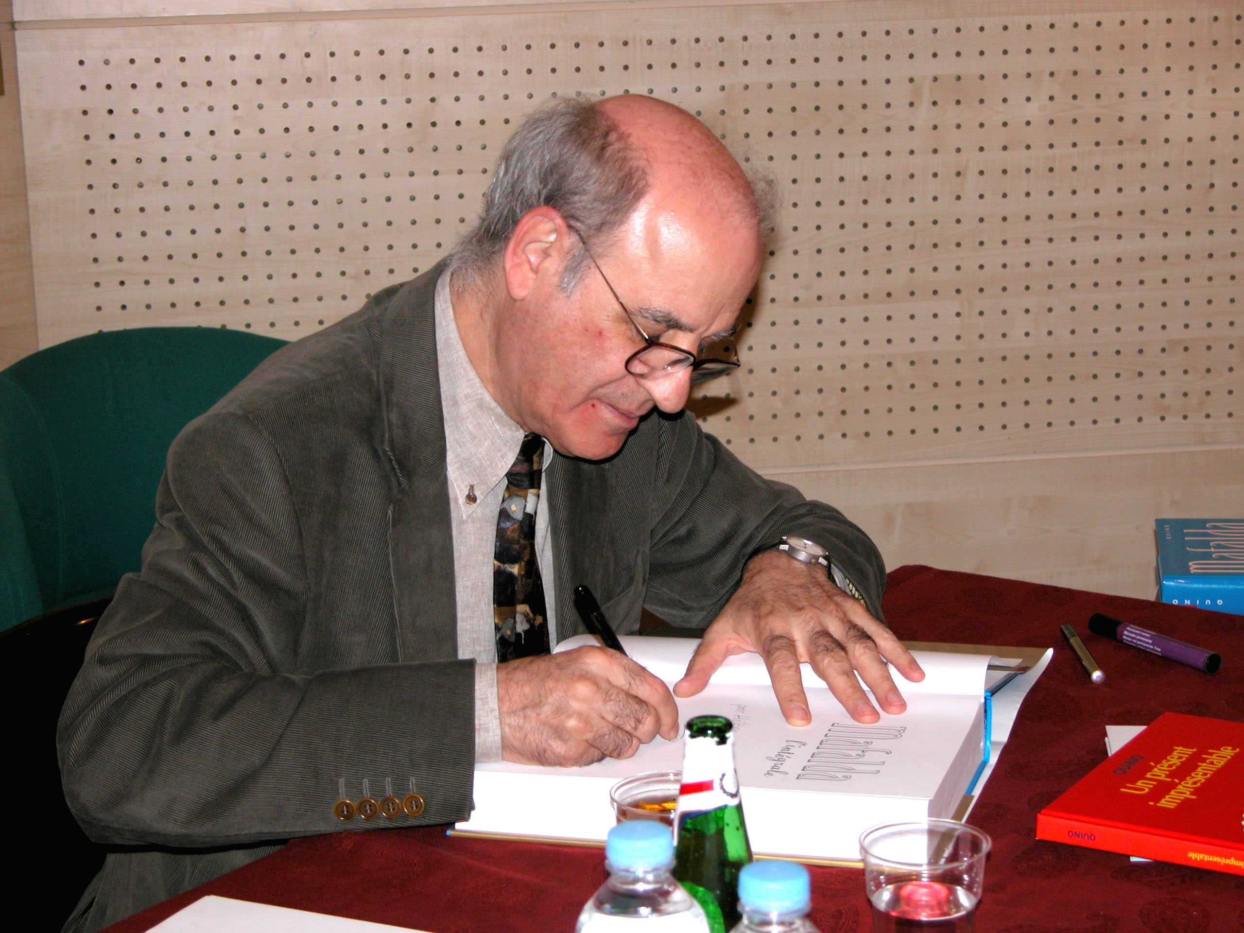 The cartoonist Quino autographs a book in Paris (2004).